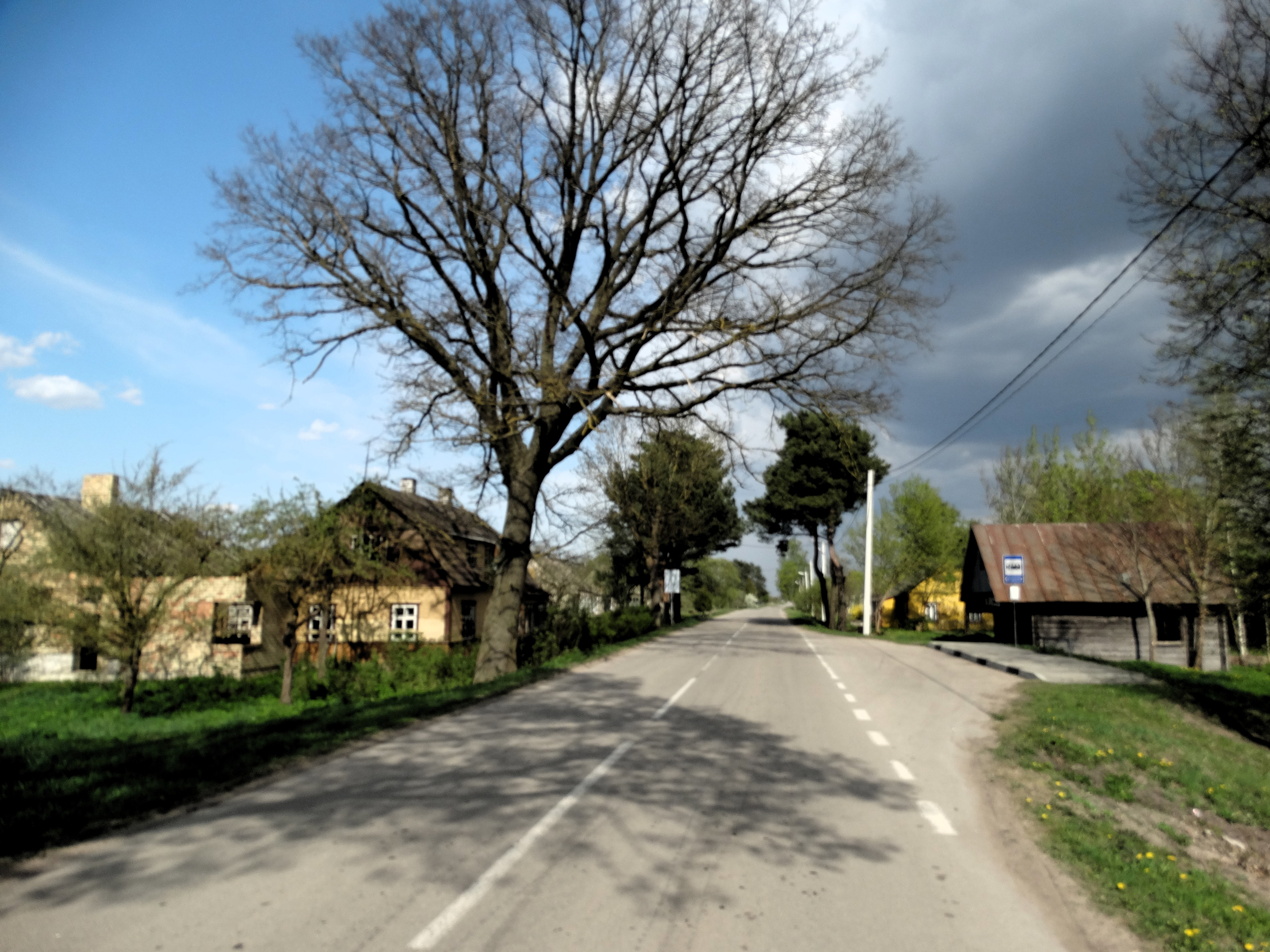 Palonai, Radviliškis District, Lithuania